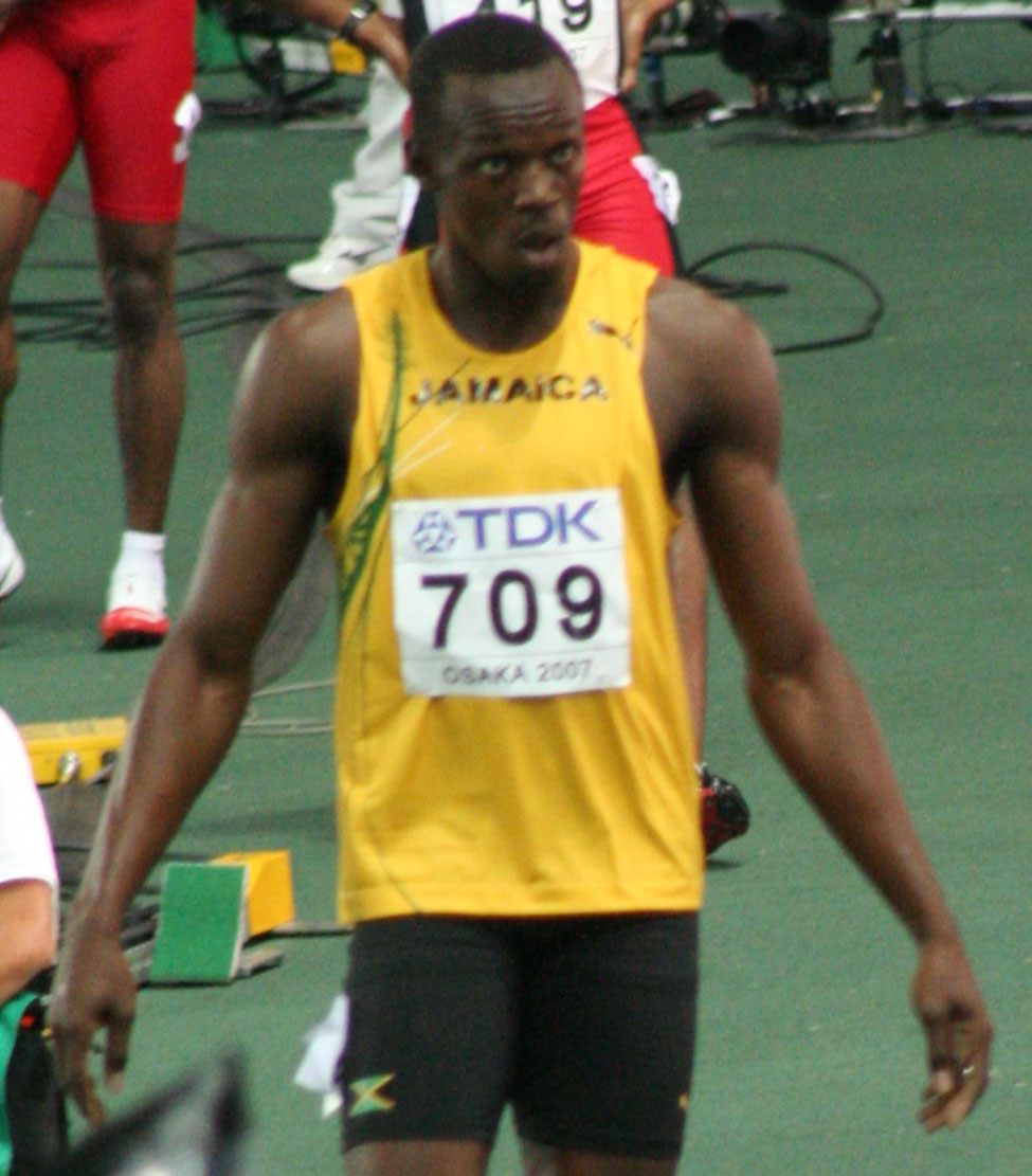 World Athletics Championships 2007 in Osaka - Jamaican 200 metres runner Usain Bolt.